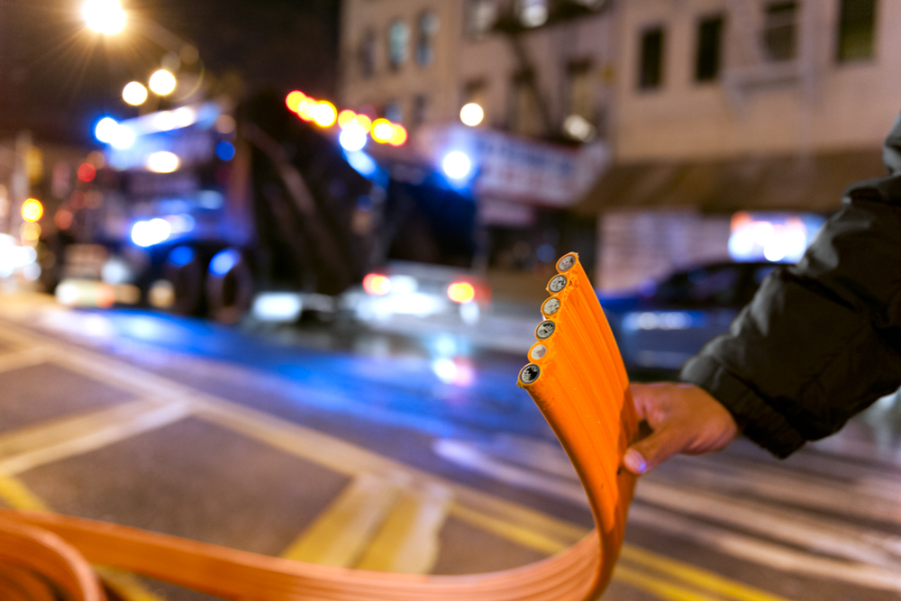 Stealth Communications' 6-Way Microduct for Fiber Optic; Buried Applicationj